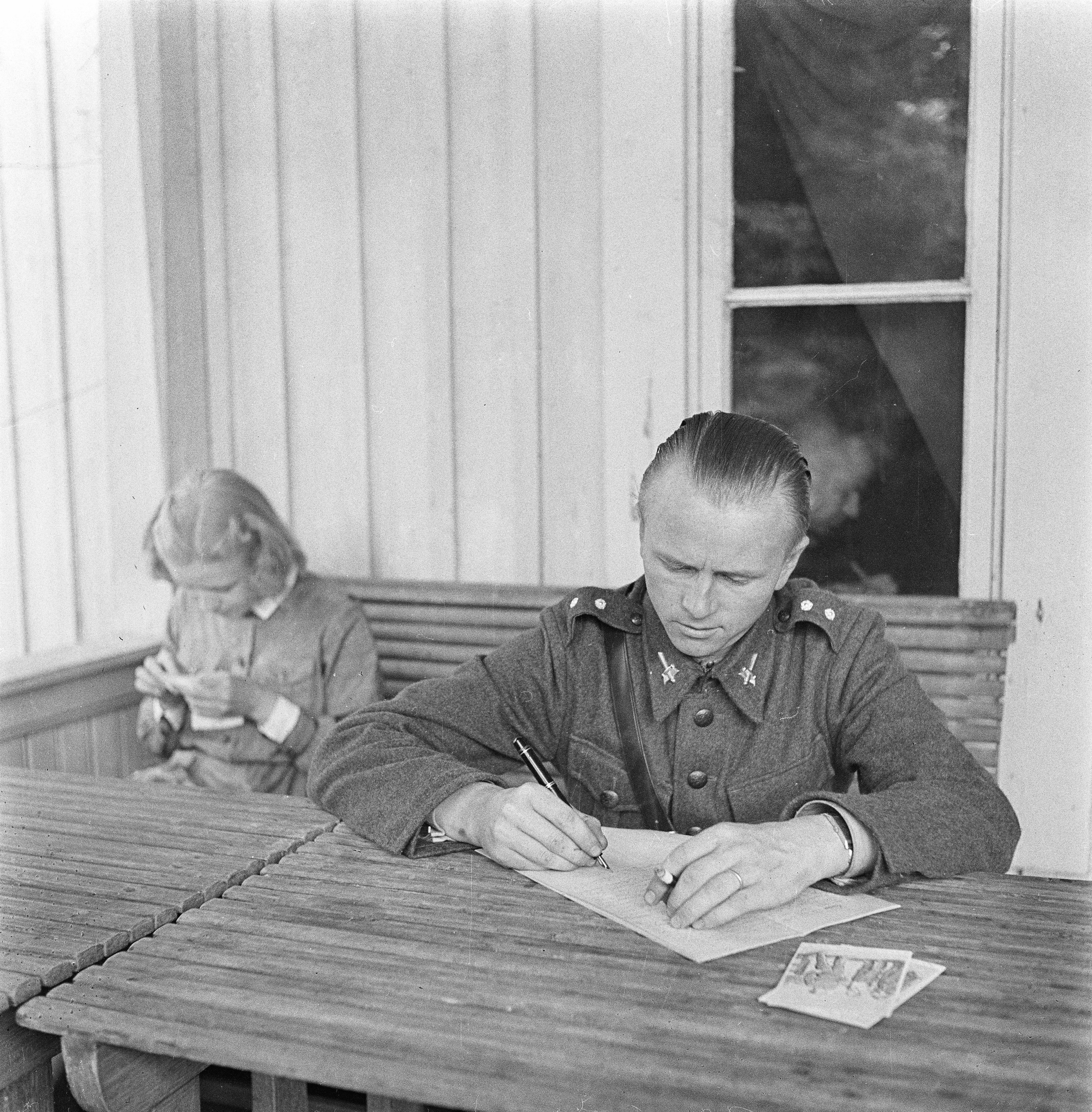 Aimo Mustonen